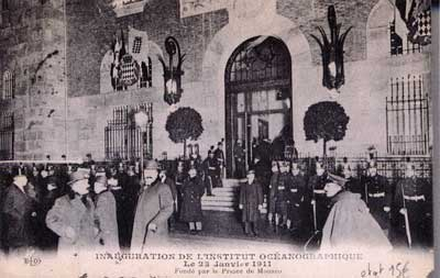 Inauguration of the Institut oceanographique of Paris in 1911